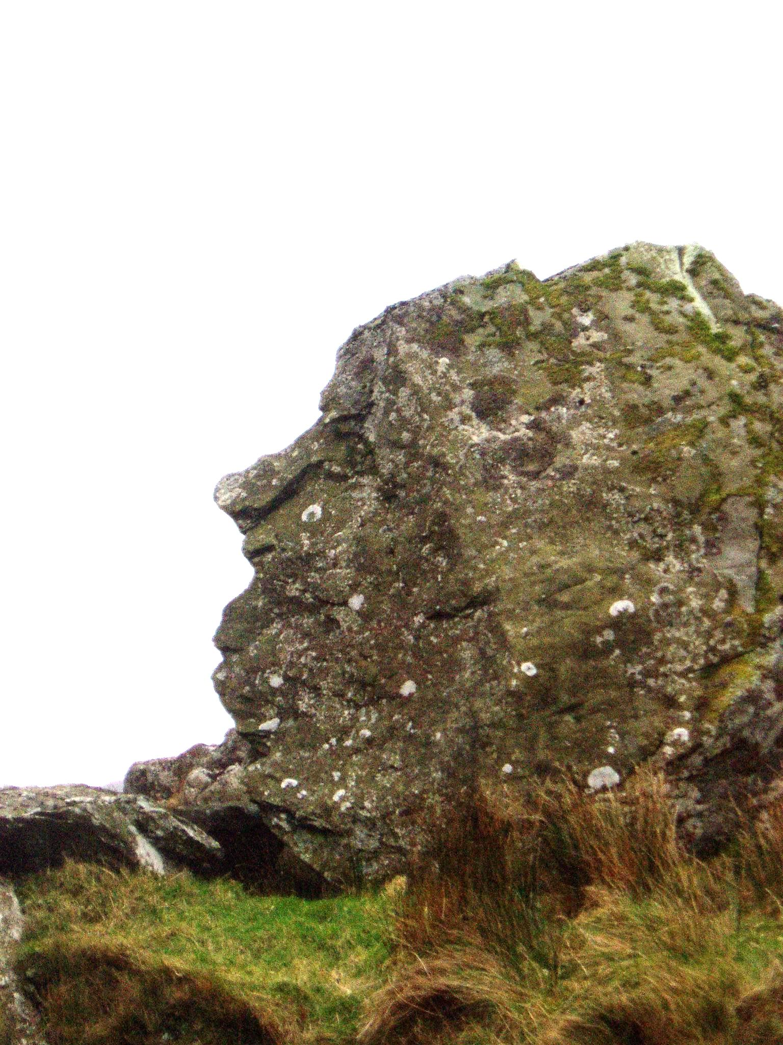 A rock, known as Pitt's Head because of its resemblance to the politician Pitt the Younger, at UK grid reference SH576515